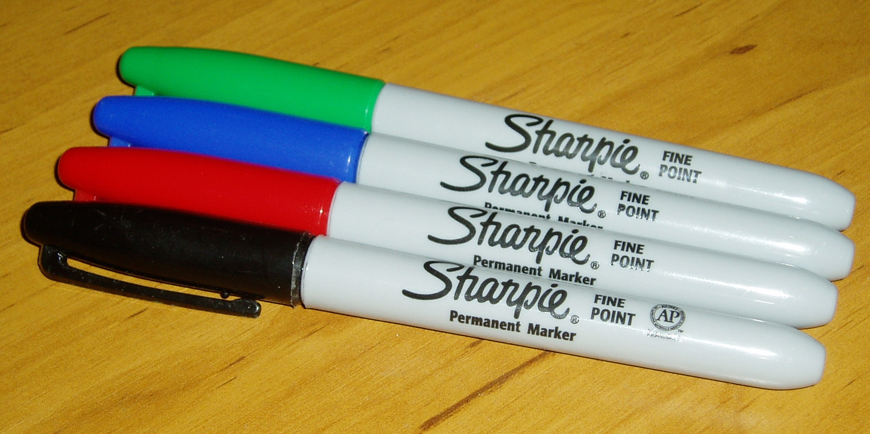 Four Sharpier permanent markers, showing black, red, blue and green.